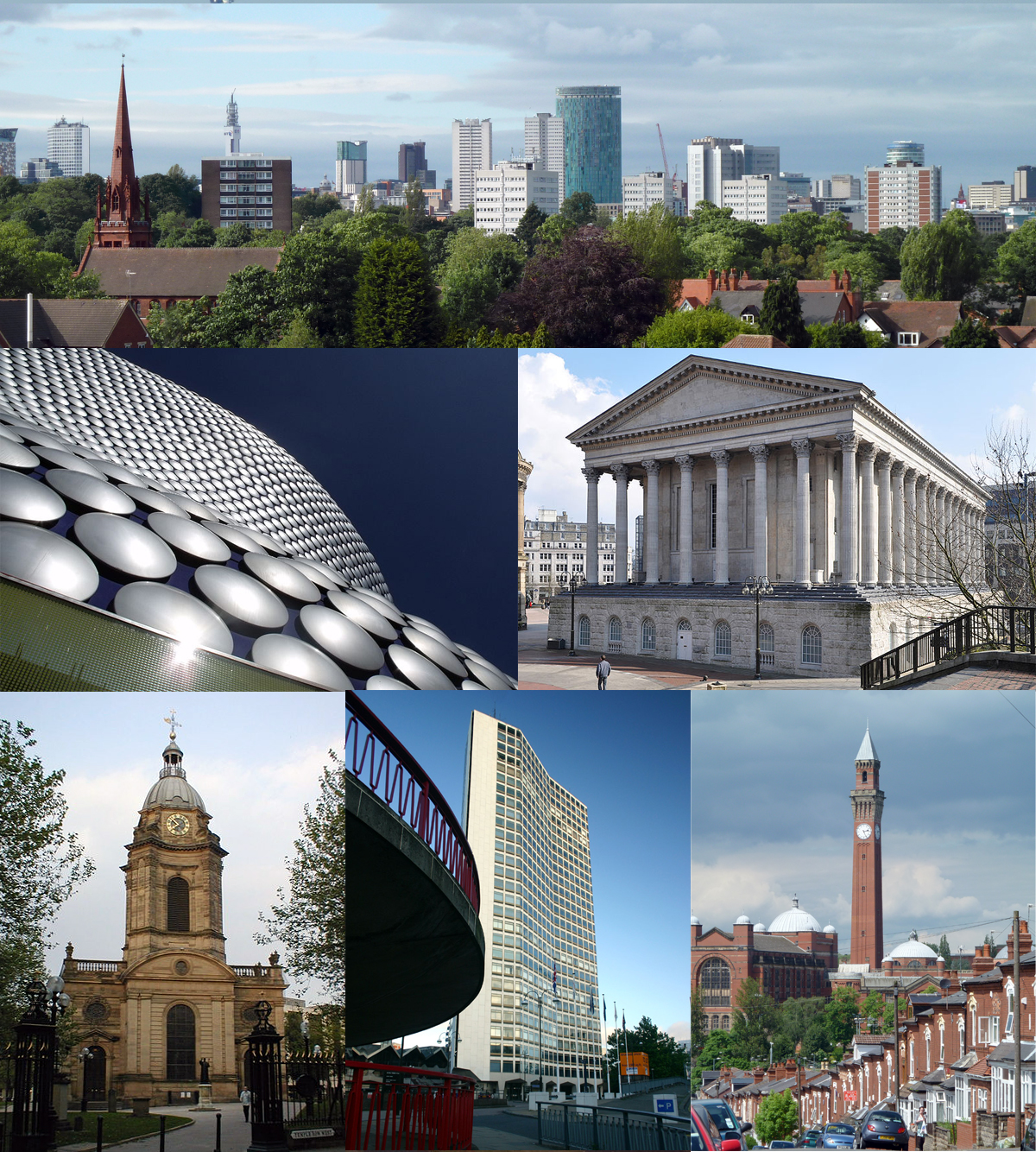 Montage of Birmingham landmarks. Skyline of Birmingham City Centre seen from Edgbaston Cricket Ground Selfridges Birmingham Town Hall St Phillip's Cathedral Alpha Tower University of Birmingham